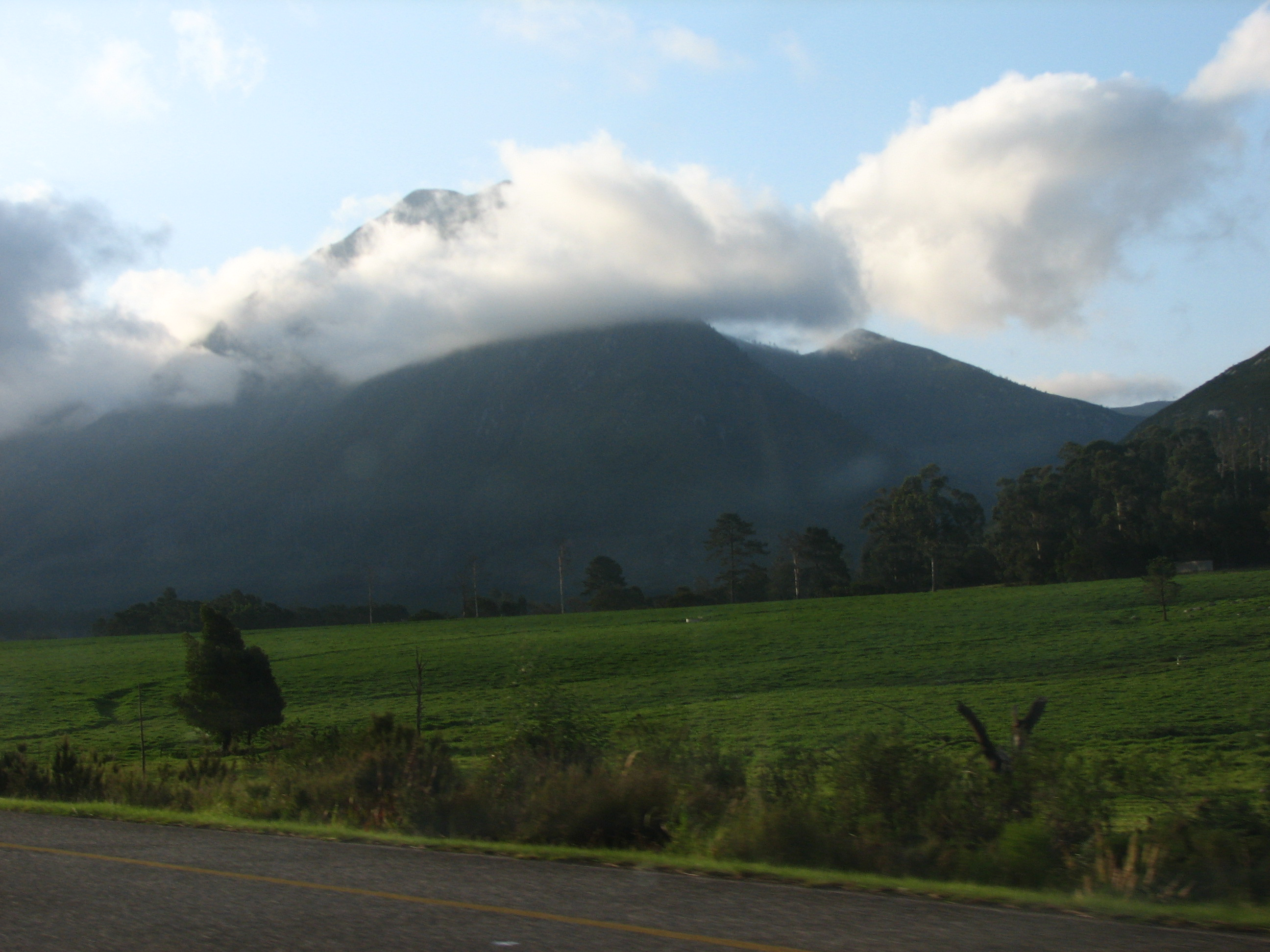 Witels Peak in the Tsitsikamma Range from the N2 highway. Taken by myself, Andres de Wet, in December 2006